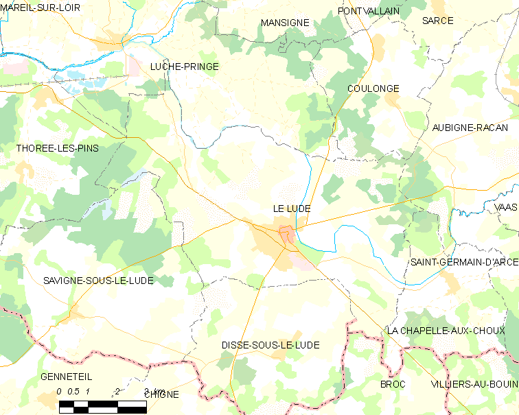 Map of French municipality